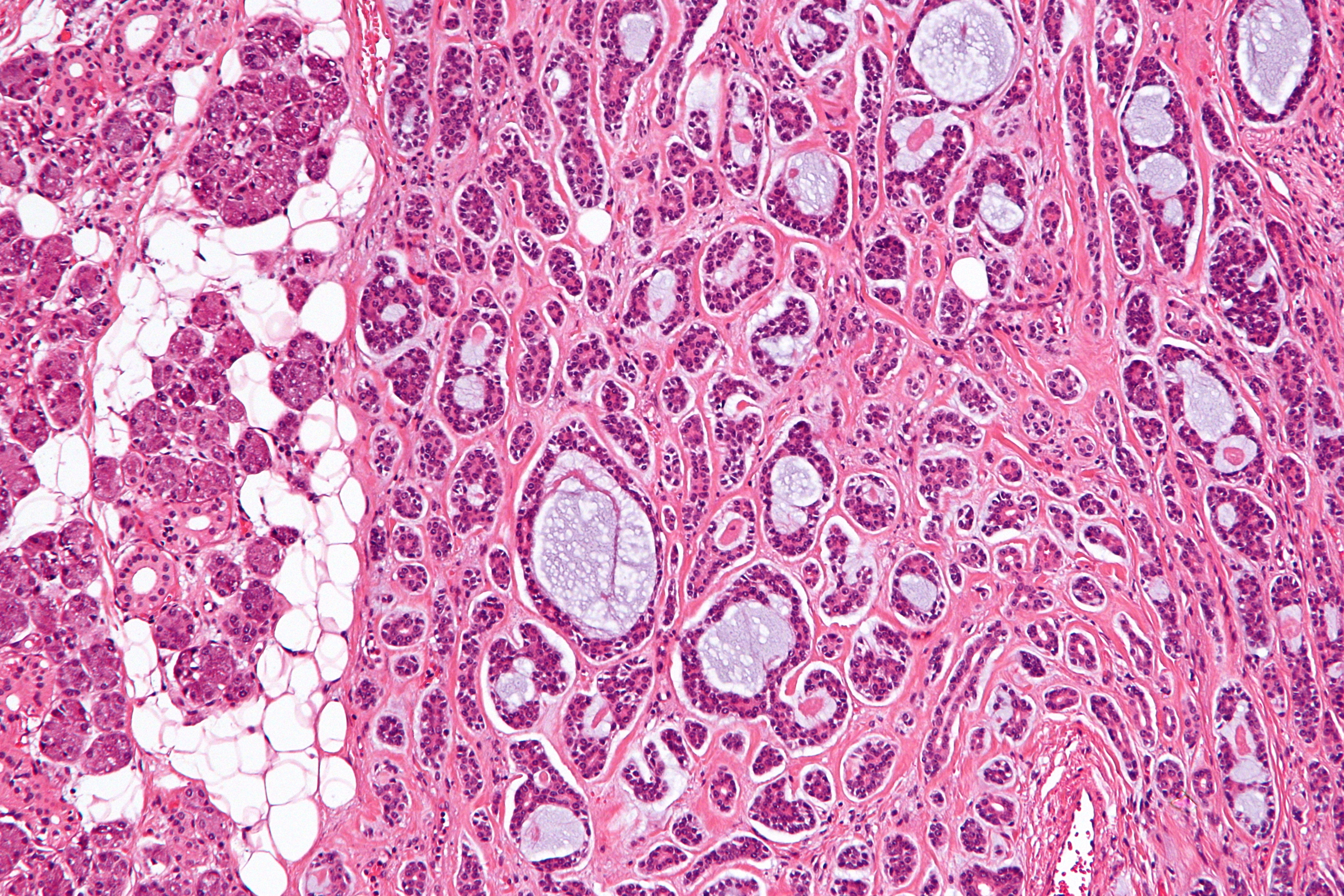 Intermediate magnification micrograph of adenoid cystic carcinoma, abbreviated AdCC. H&E stain. AdCC consists of a mix of ductal cells and myoepithelial cells. The myoepithelial cells are predominant and have scant cytoplasm. The cribriform / tubular / cystic architecture is classic and a distinctive feature. Other features include (pink & paucicellular) hyaline stroma, and whispy & dirty material within the cystic spaces, which is PAS positive. Normal serous glands, characteristic of the parotid salivary gland, are seen in some images. Related images Low mag. Intermed mag. High mag. Very high mag. Very high mag.